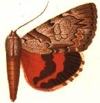 PLATE CC.